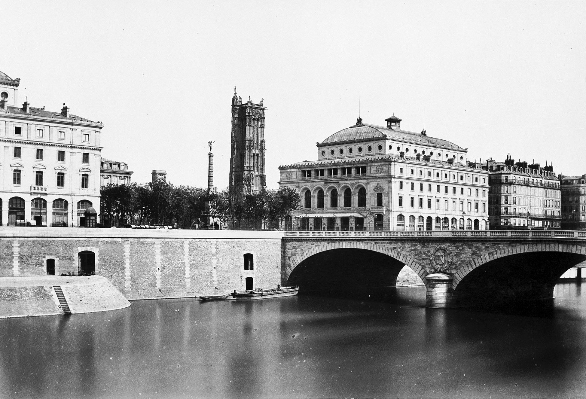 View of the Pont au Change and the buildings on Place du Chàtelet: Tour Saint-Jacques stands in the background. Théâtre Lyrique is on the right and opposite it on the left is Théâtre du Chàtelet. Fontaine du Palmier stands between them. This photograph has been published as number 86 on p. 21 of Paris et ses environs en photographie (1851–70).[1]